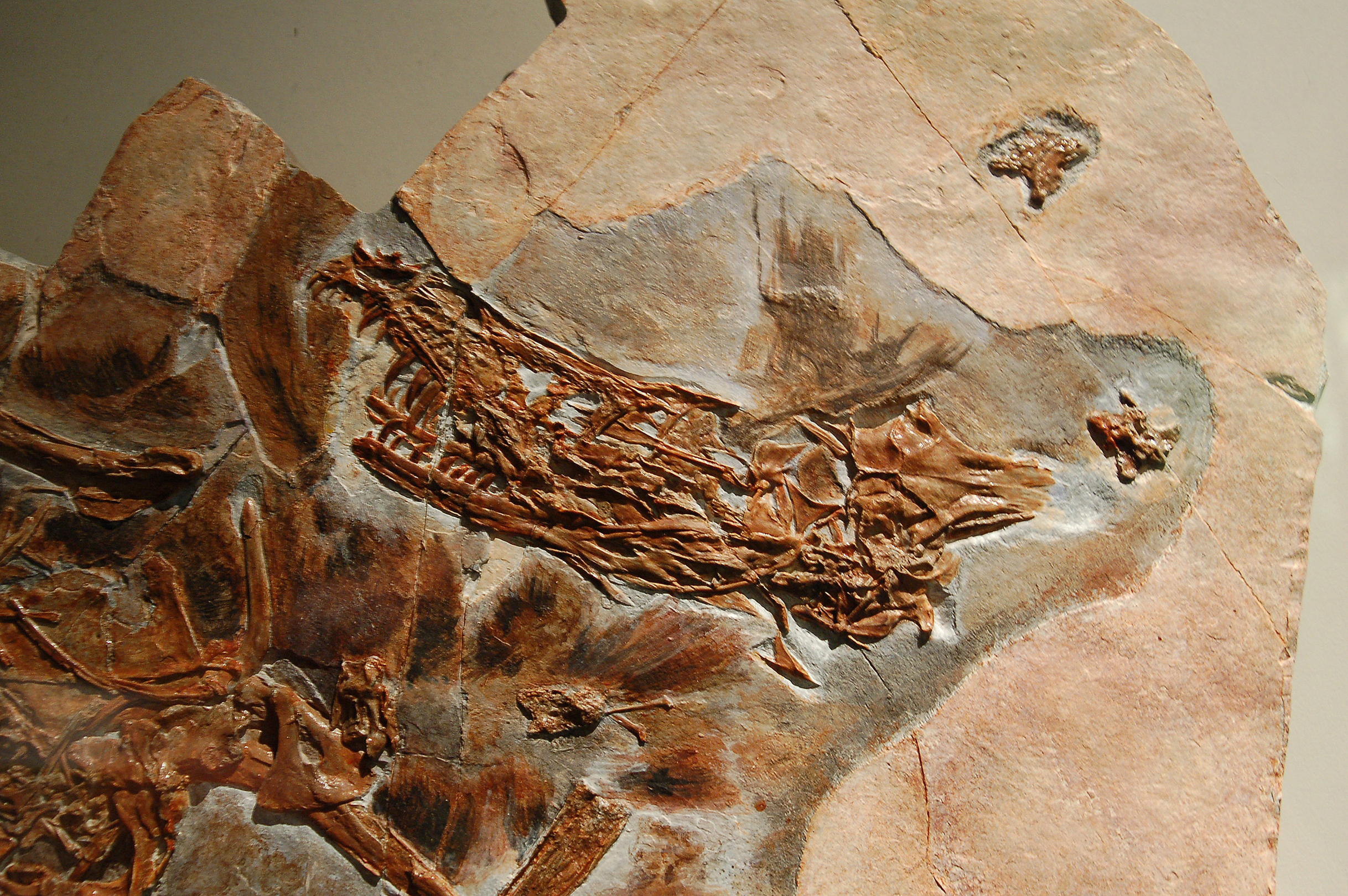 Cast of the holotype specimen of Sinornithosaurus millenii (IVPP V12811), at the American Museum of Natural History in New York.